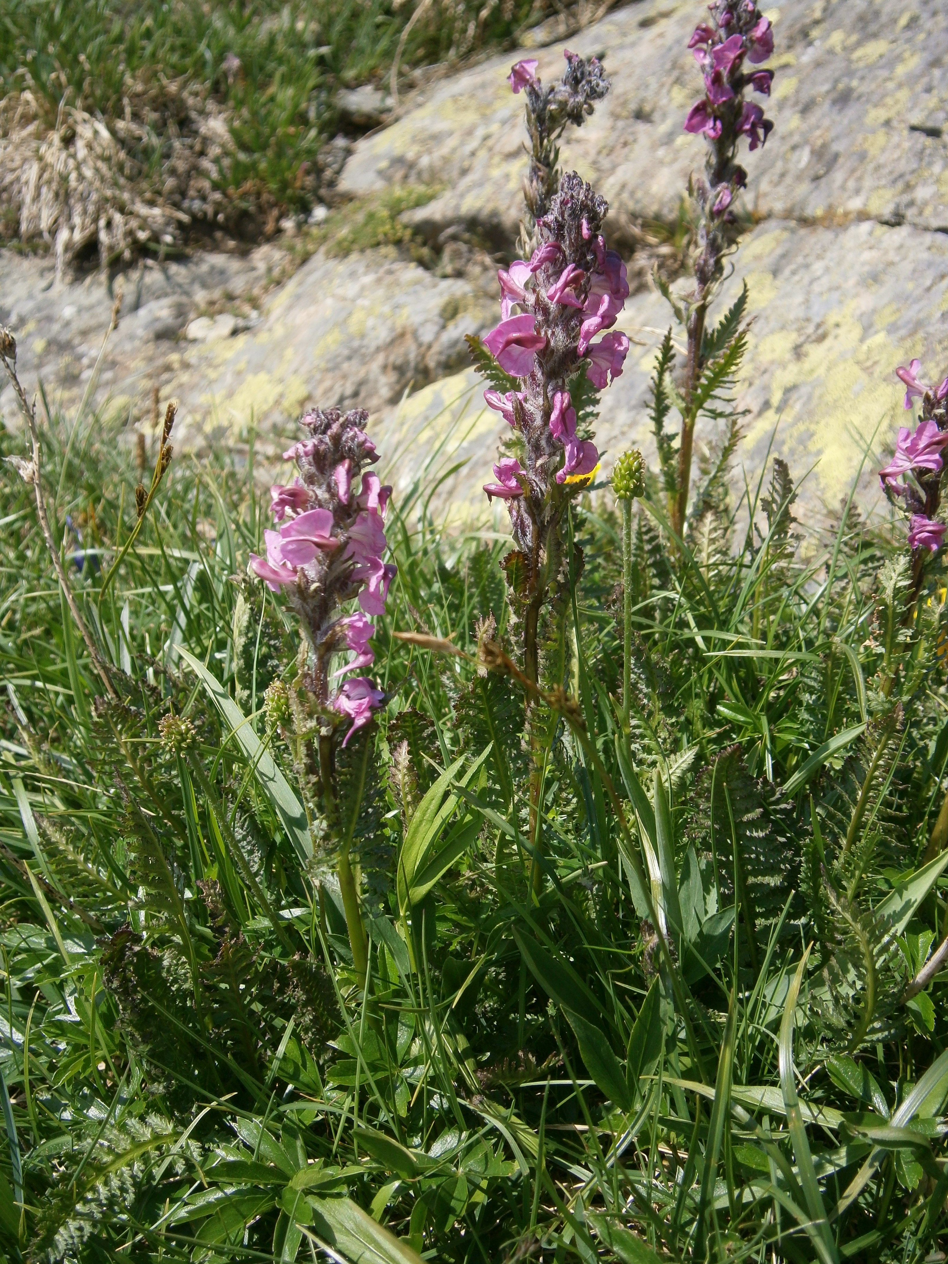 Pedicularis rostratospicata